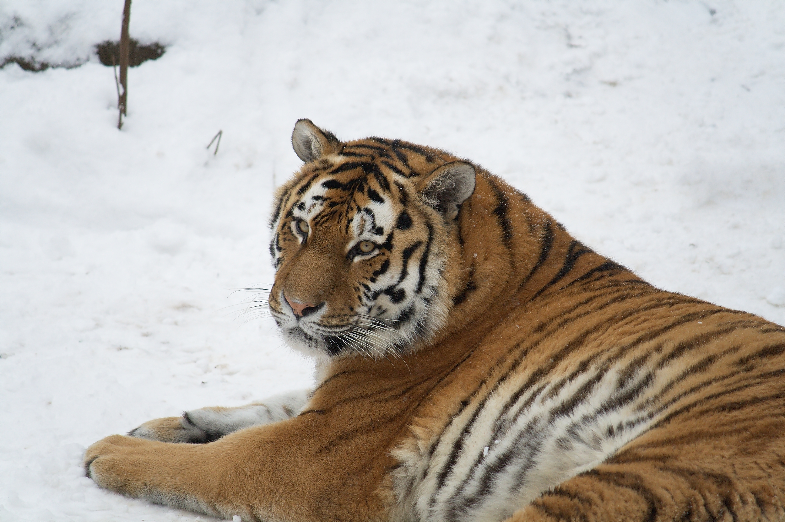 Female Panthera tigris altaica, Leipzig Zoo / Bella (*30. Mai 2005 in Plzen, Tschechien)